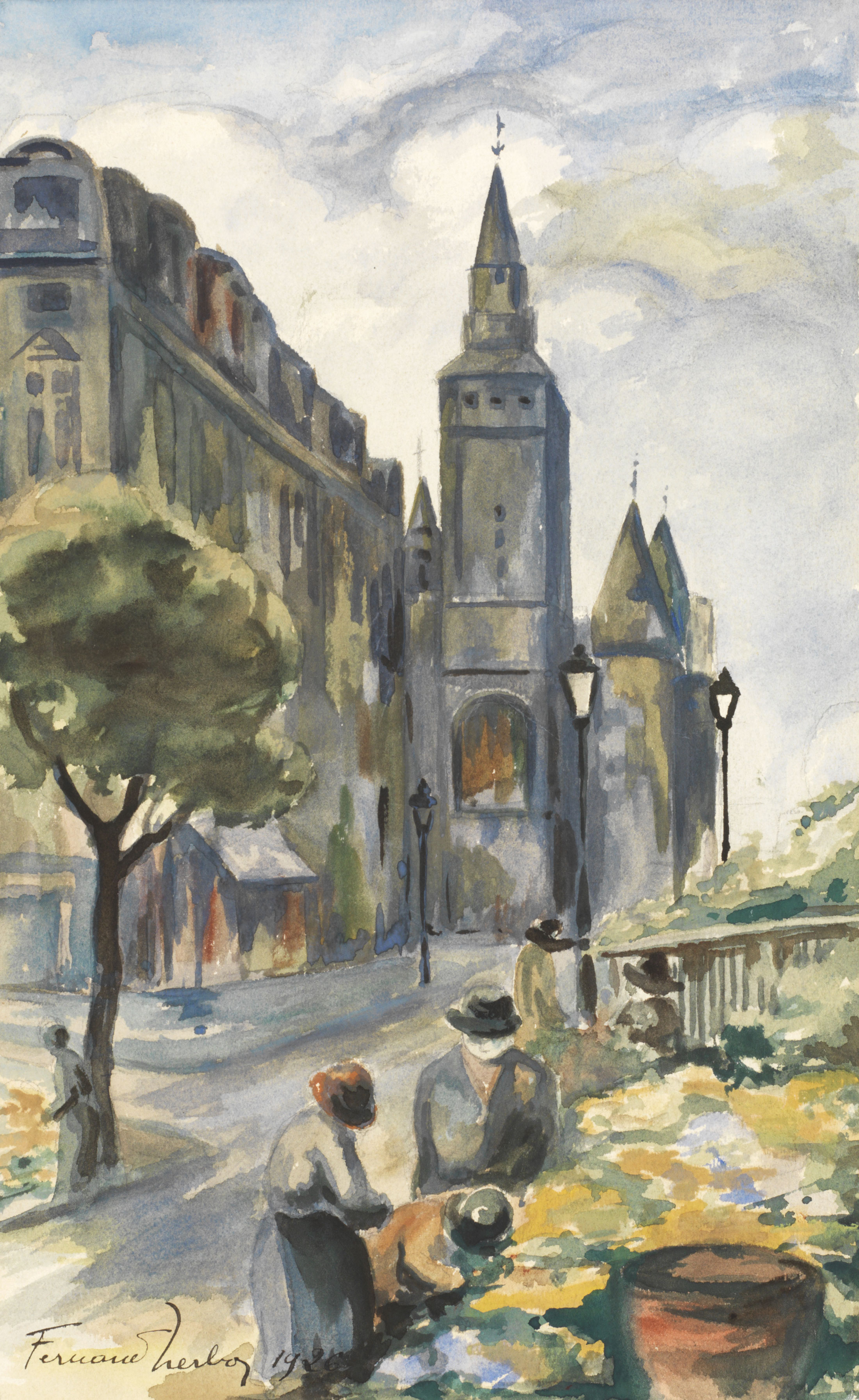 Fernand Herbo - Rue Animée, 1926